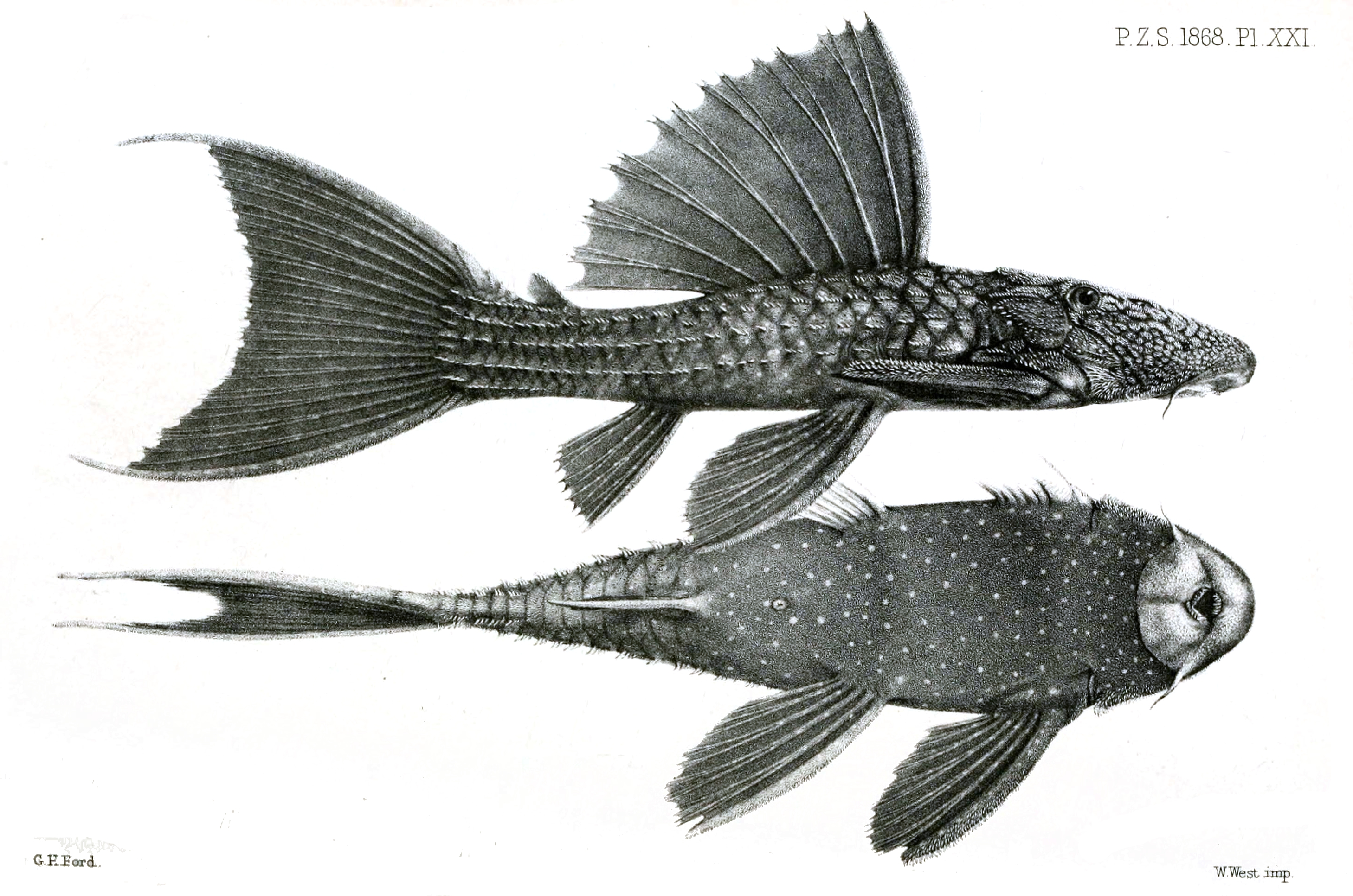 Chætostomus fordii = Pseudacanthicus fordii (Günther, 1868) from lateral and ventral